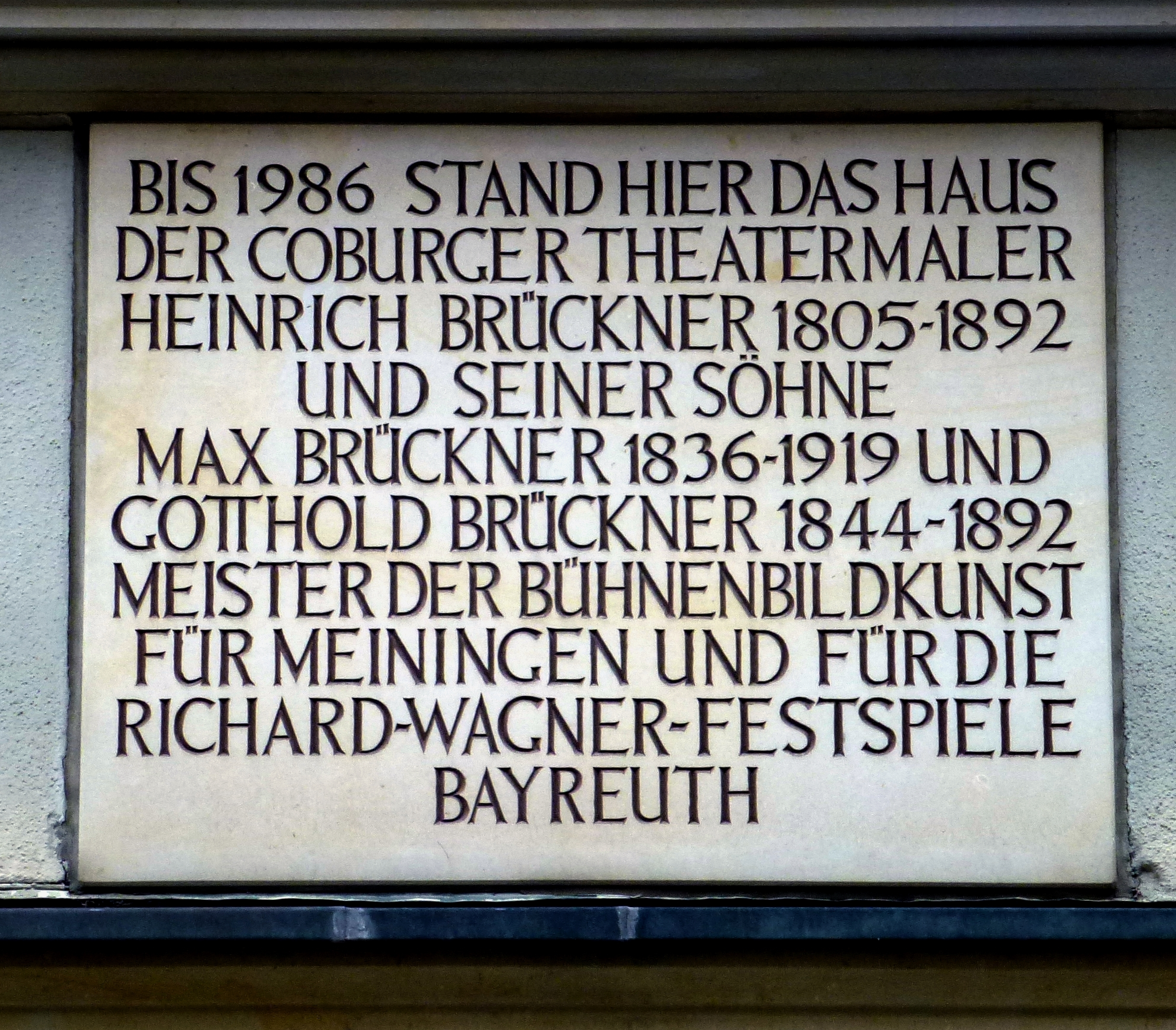 Plaque commemorating the artist family Brückner at home Ketschengasse 14 in Coburg